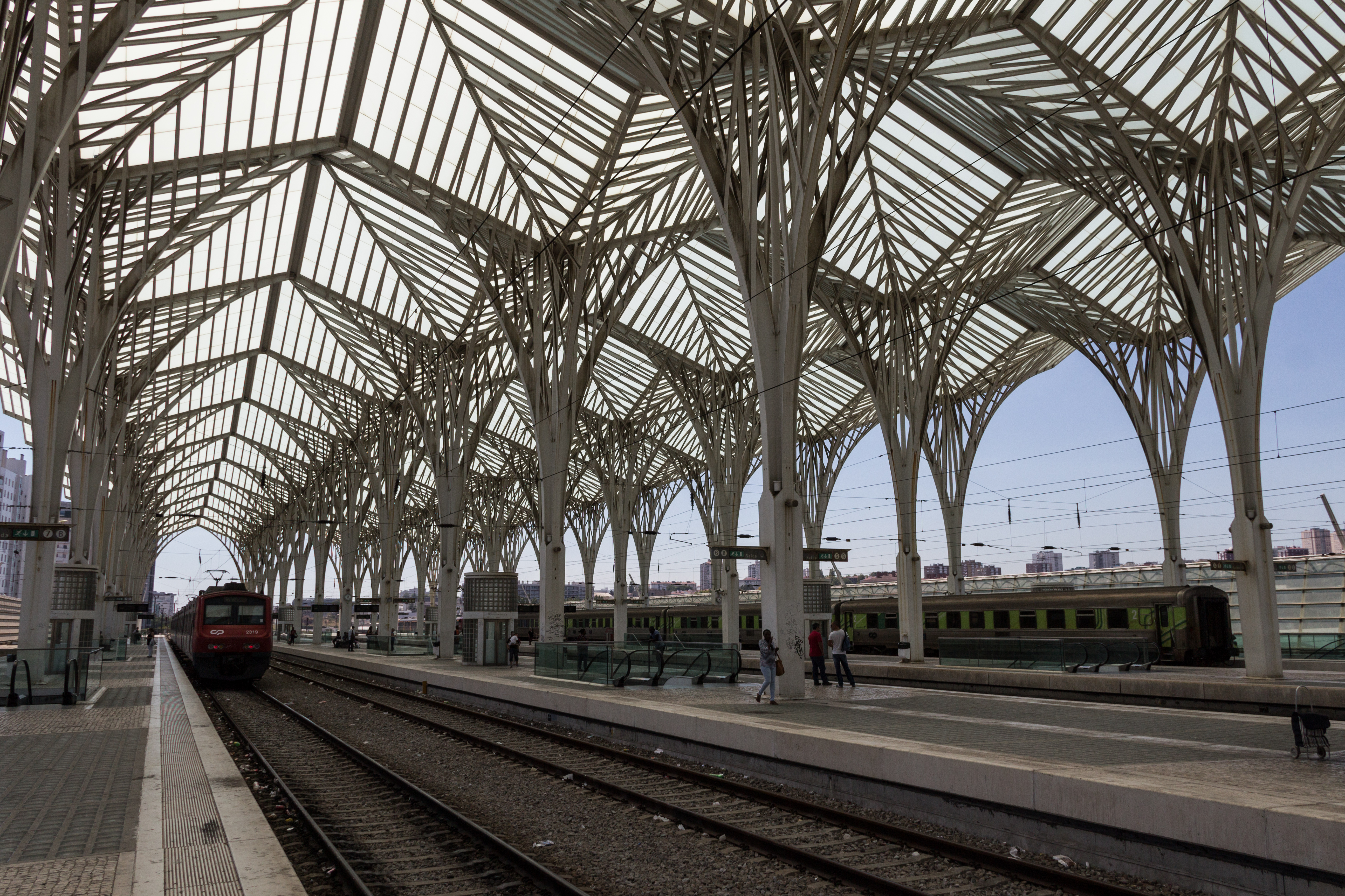 Designed by Santiago Calatrava for the 1998 W orld Expo